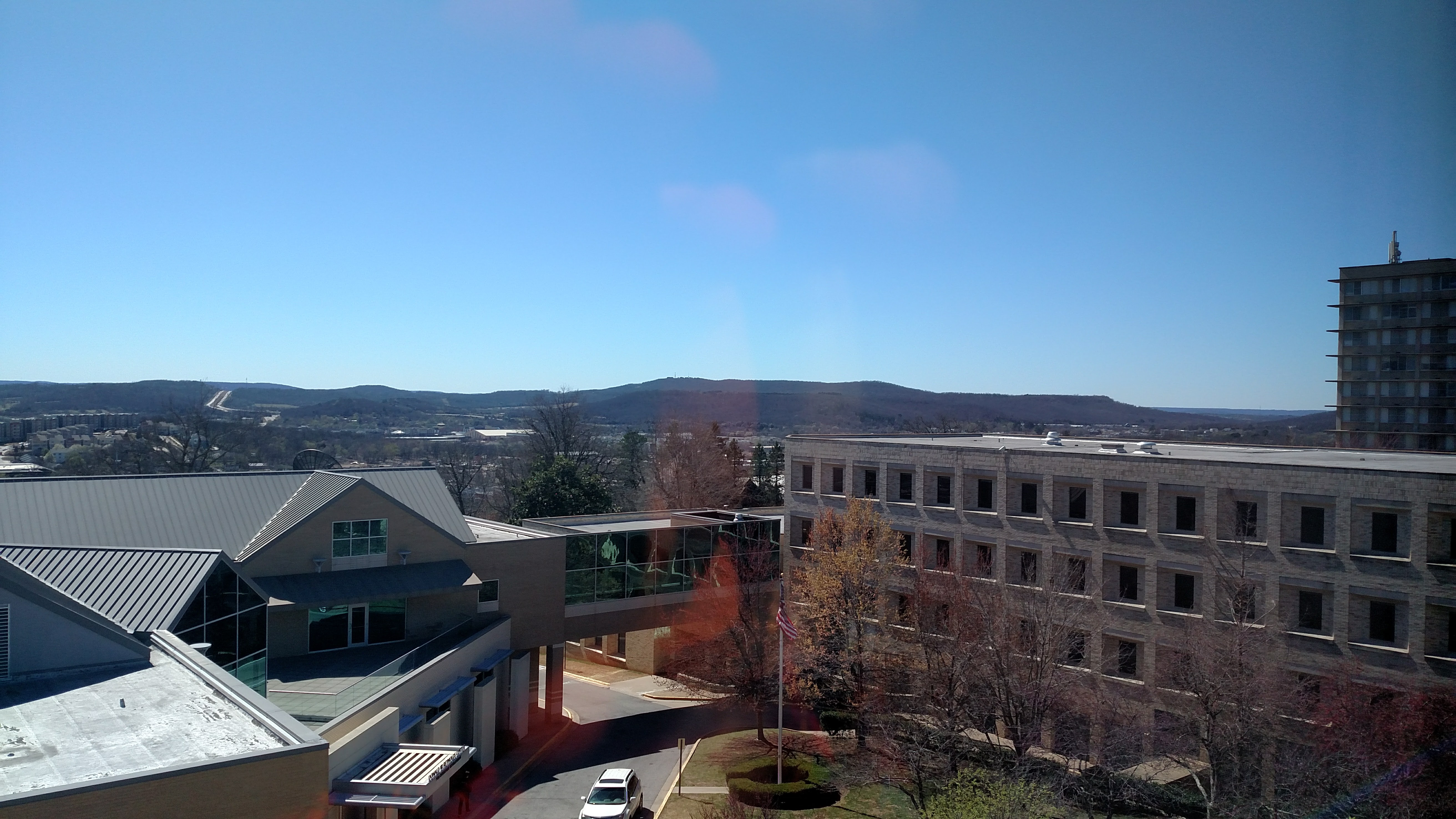 The Business Building at the Walton College of Business, University of Arkansas within the Ozark Mountains